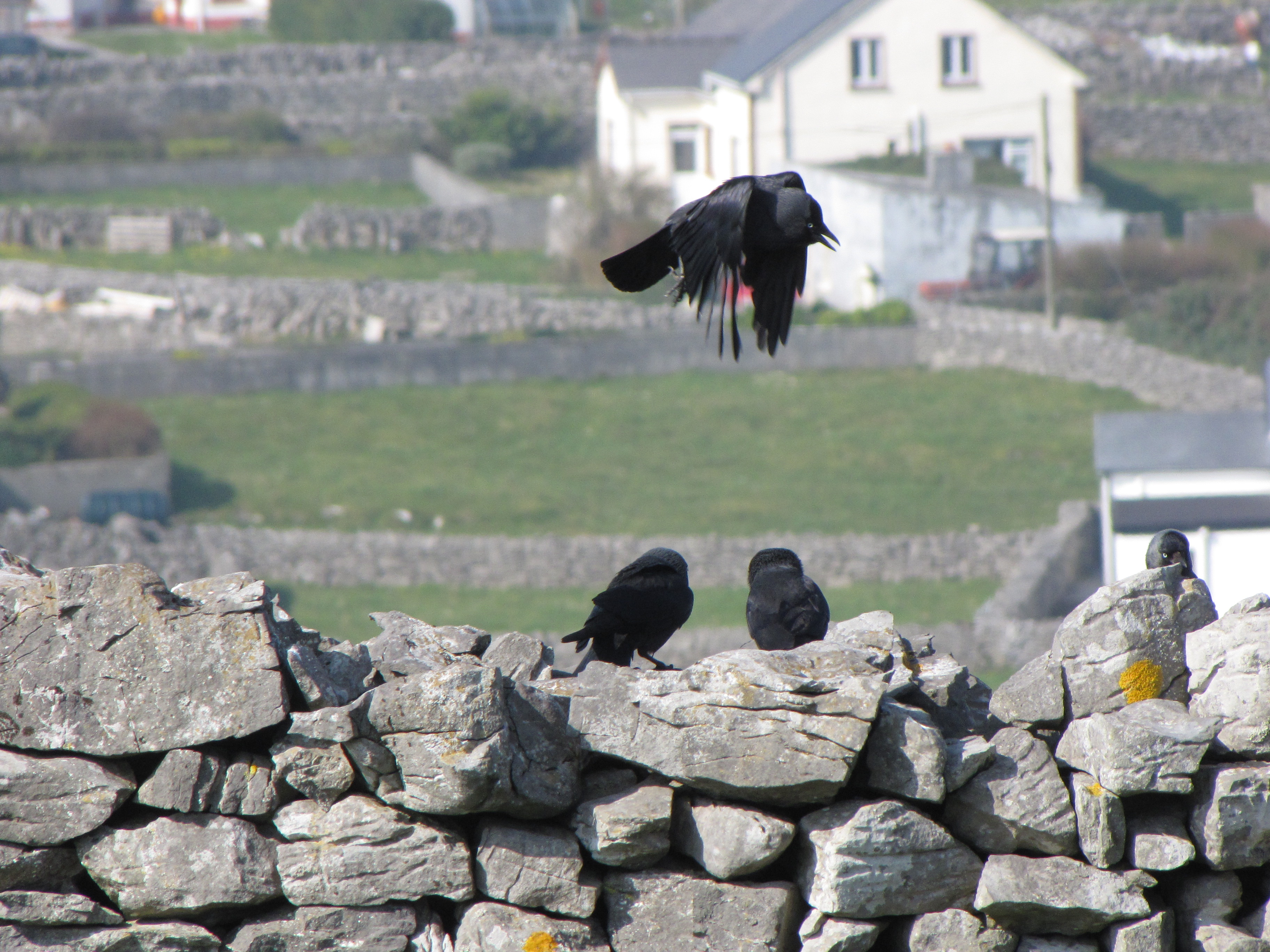 Western Jackdaws on Inisheer Island, Ireland